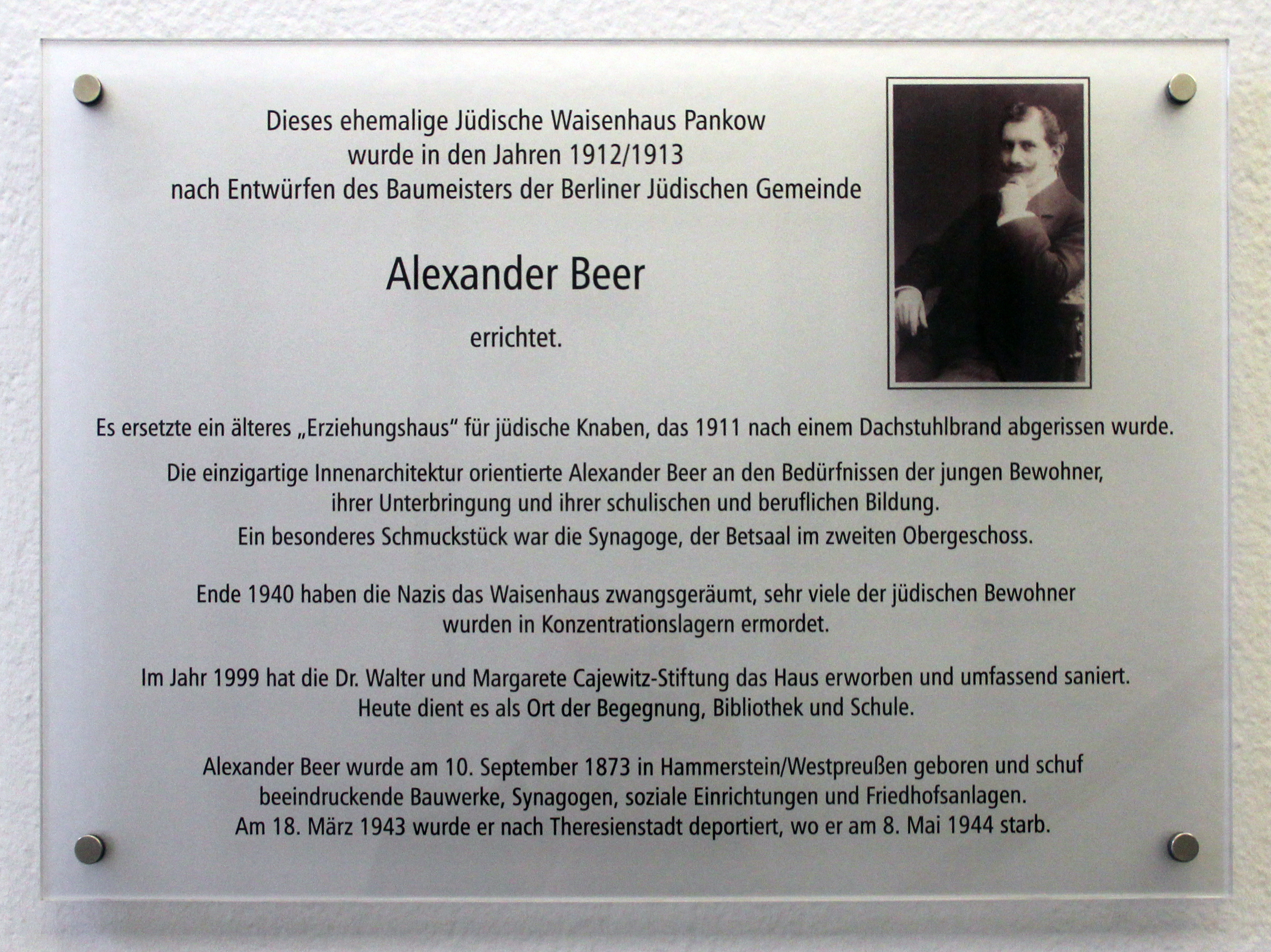 Memorial plaque, Alexander Beer, Berliner Straße 120, Berlin-Pankow, Deutschland